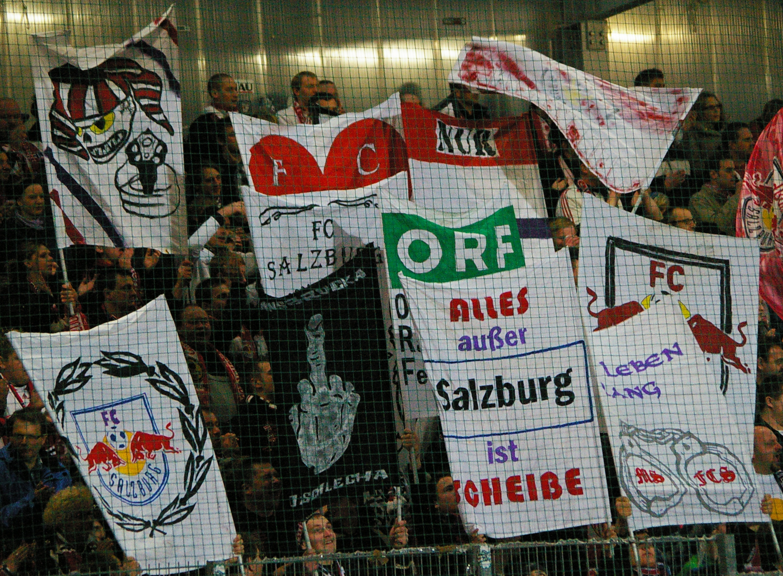 supporters FC Salzburg